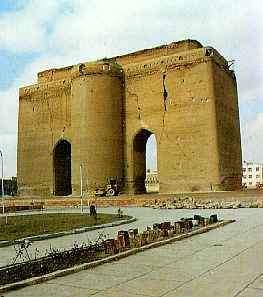 Alishah Arch in Tabriz.